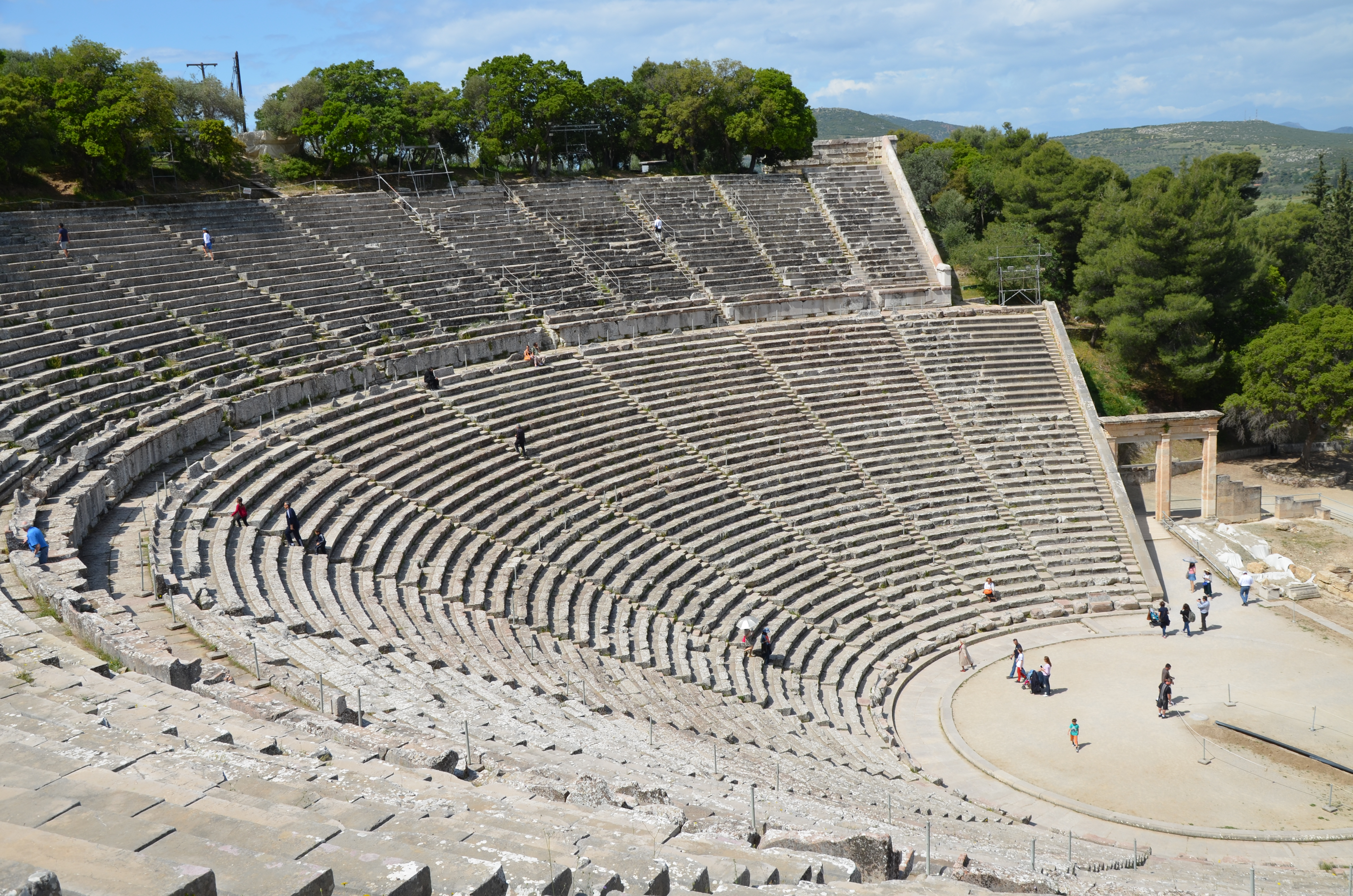 The great theater of Epidaurus, designed by Polykleitos the Younger in the 4th century BC, Sanctuary of Asklepeios at Epidaurus, Greece